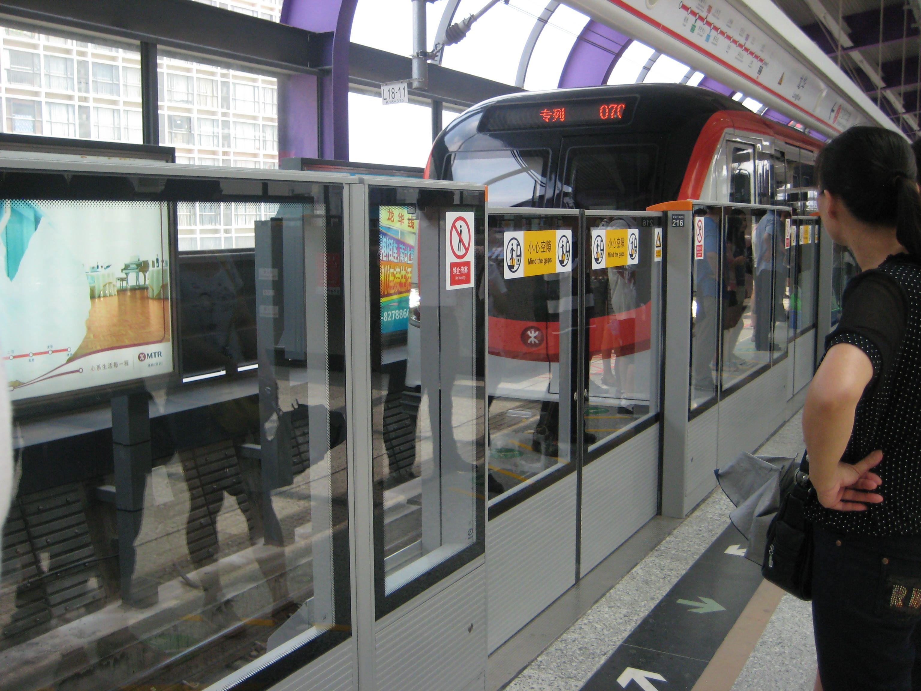 Longhua train